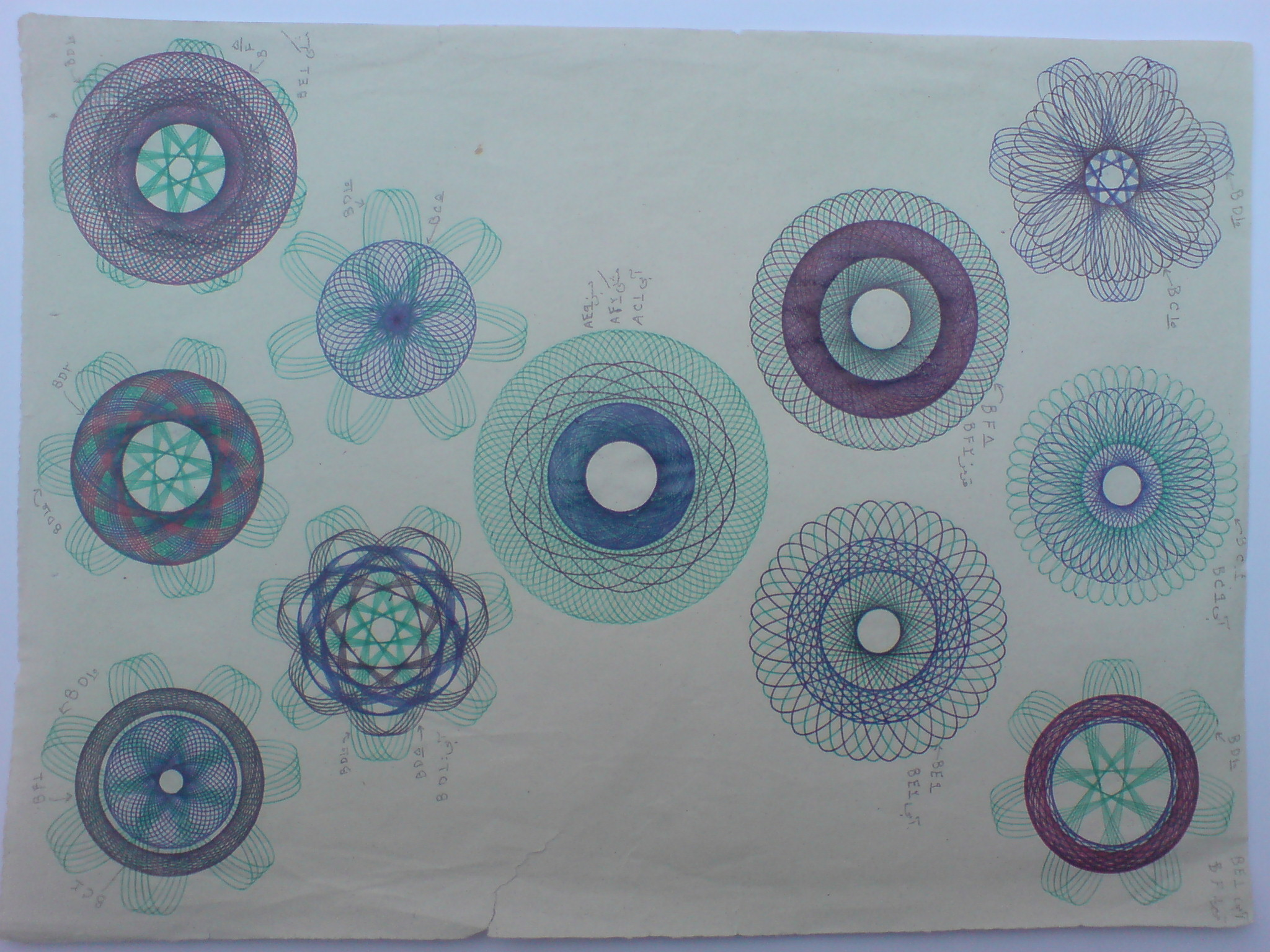 The Spirograph Drawings